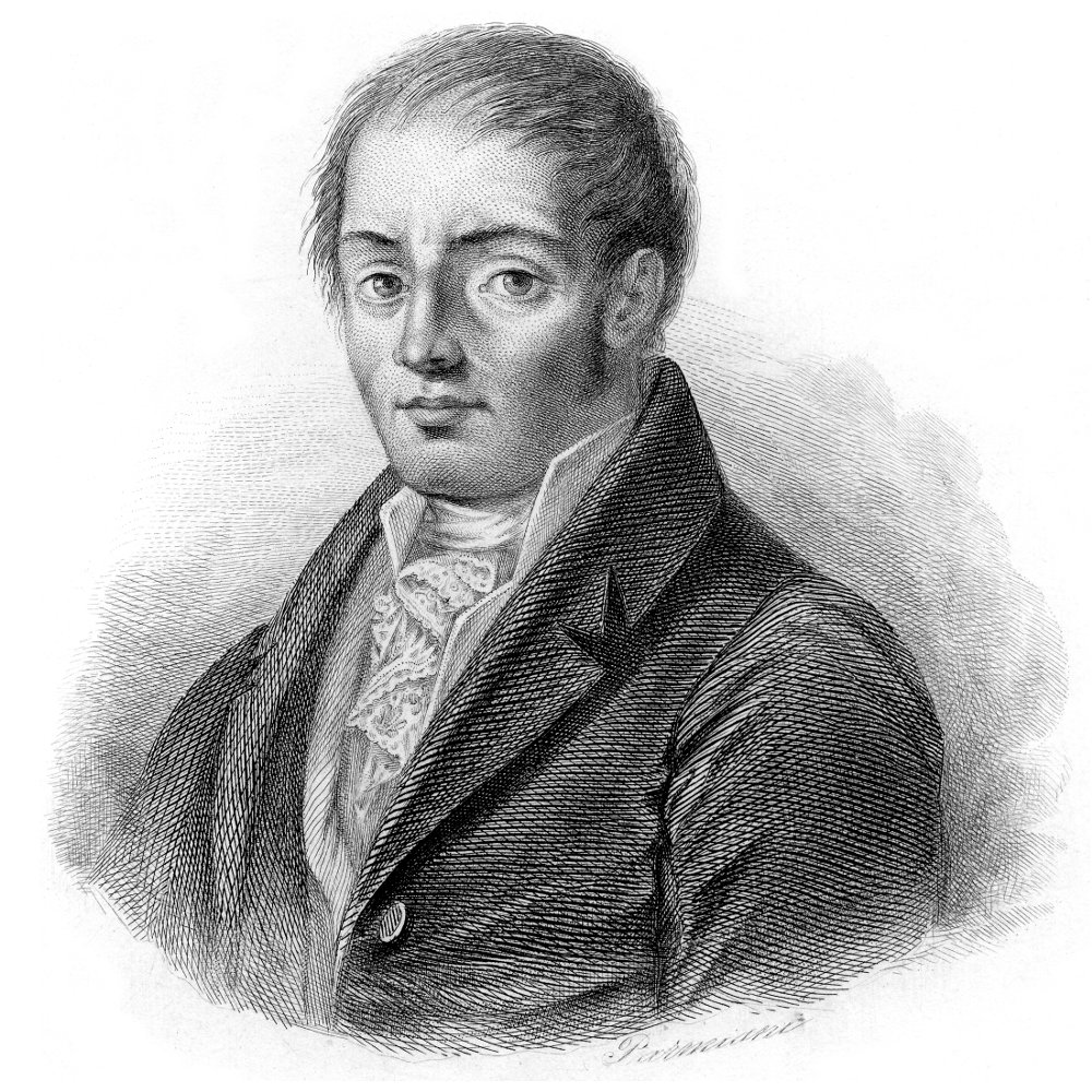 Mario Pagano (1748-1799), italian patriot - lithography 1851